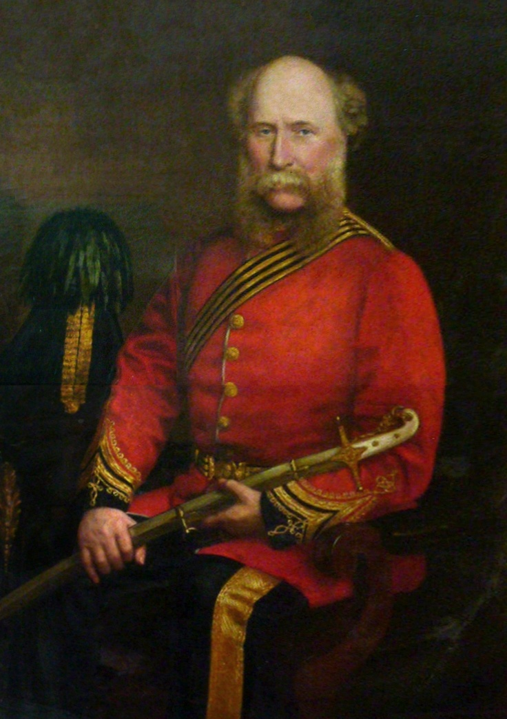 Edward Green Balfour (1813-1889). Image created from composite of photographs taken from angles and corrected for perspective and reflections - original oil painting in public gallery of Government Museum, Egmore, Madras / Chennai.